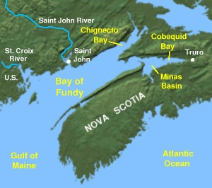 Bay of Fundy © 2004 Matthew Trump